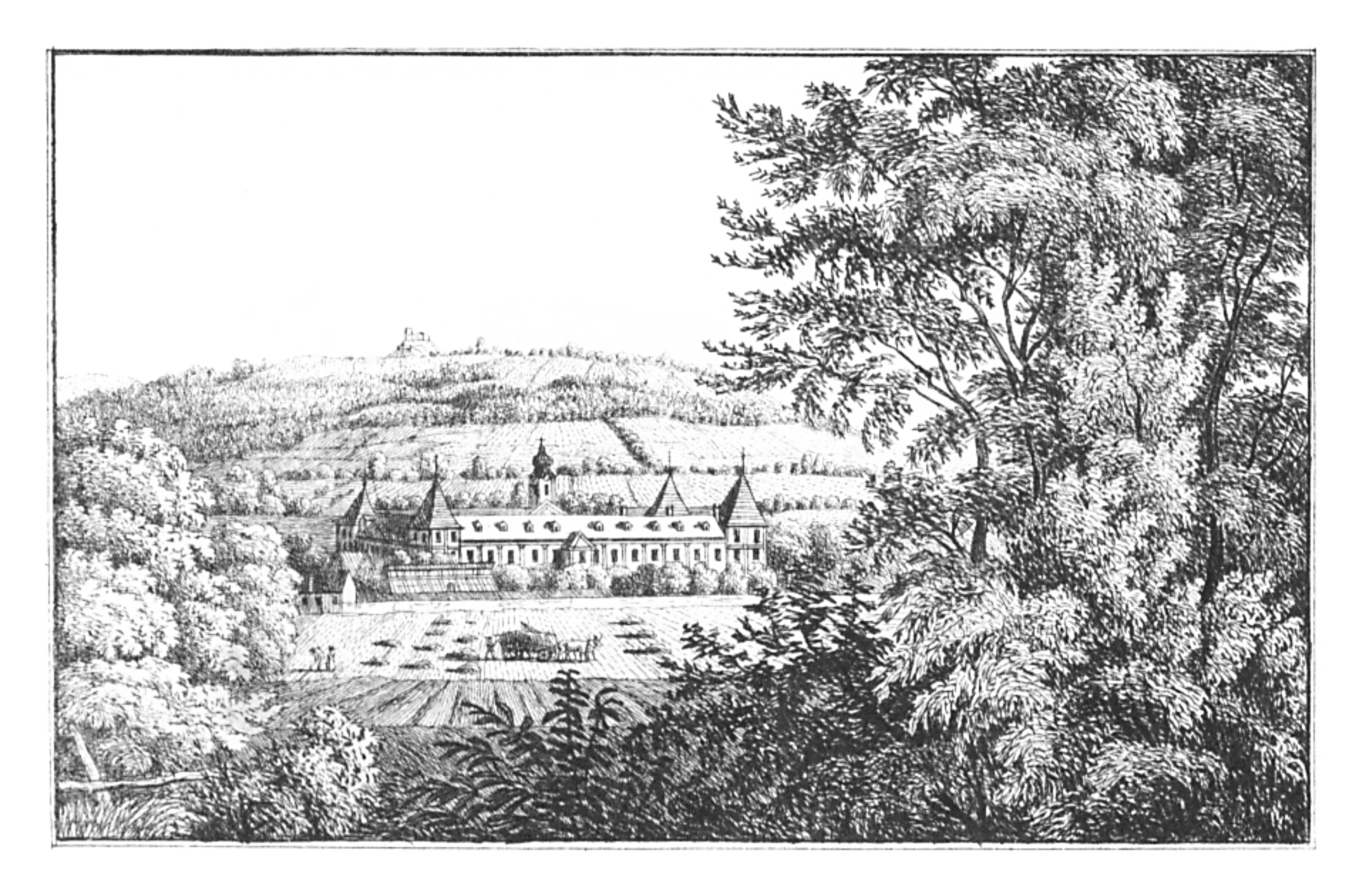 J. F. Kaiser - lithographirte Ansichten der Steyermärkischen Städte, Märkte und Schlösser, Graz 1824-1833 Joseph Franz Kaiser (1786–1859) Alternative names J. F. KaiserDescriptionAustrian printer and editorDate of birth/death 11 March 1786 19 September 1859Location of birth/death Graz (Styria) GrazAuthority control : Q1499963 VIAF: 30629353 ISNI: 0000 0000 3083 0153 LCCN: n87141671 GND: 129880159 NLP: A24960305 WorldCat creator QS:P170,Q1499963 . Scanprojekt Community Projektbudget 2012 This scan or this PDF-file was created within the GLAM-project Bookscanning, supported by Wikimedia Germany and Wikimedia Austria as a part of the community-project to capture books, documents and pictures which are not eligible to copyright or for which the copyright has expired. This document describes or depicts an object which is located in Austria today. Send requests for uncompressed scans to Hubertl. This work is in the public domain in its country of origin and other countries and areas where the copyright term is the author's life plus 100 years or less. You must also include a United States public domain tag to indicate why this work is in the public domain in the United States. This file has been identified as being free of known restrictions under copyright law, including all related and neighboring rights.